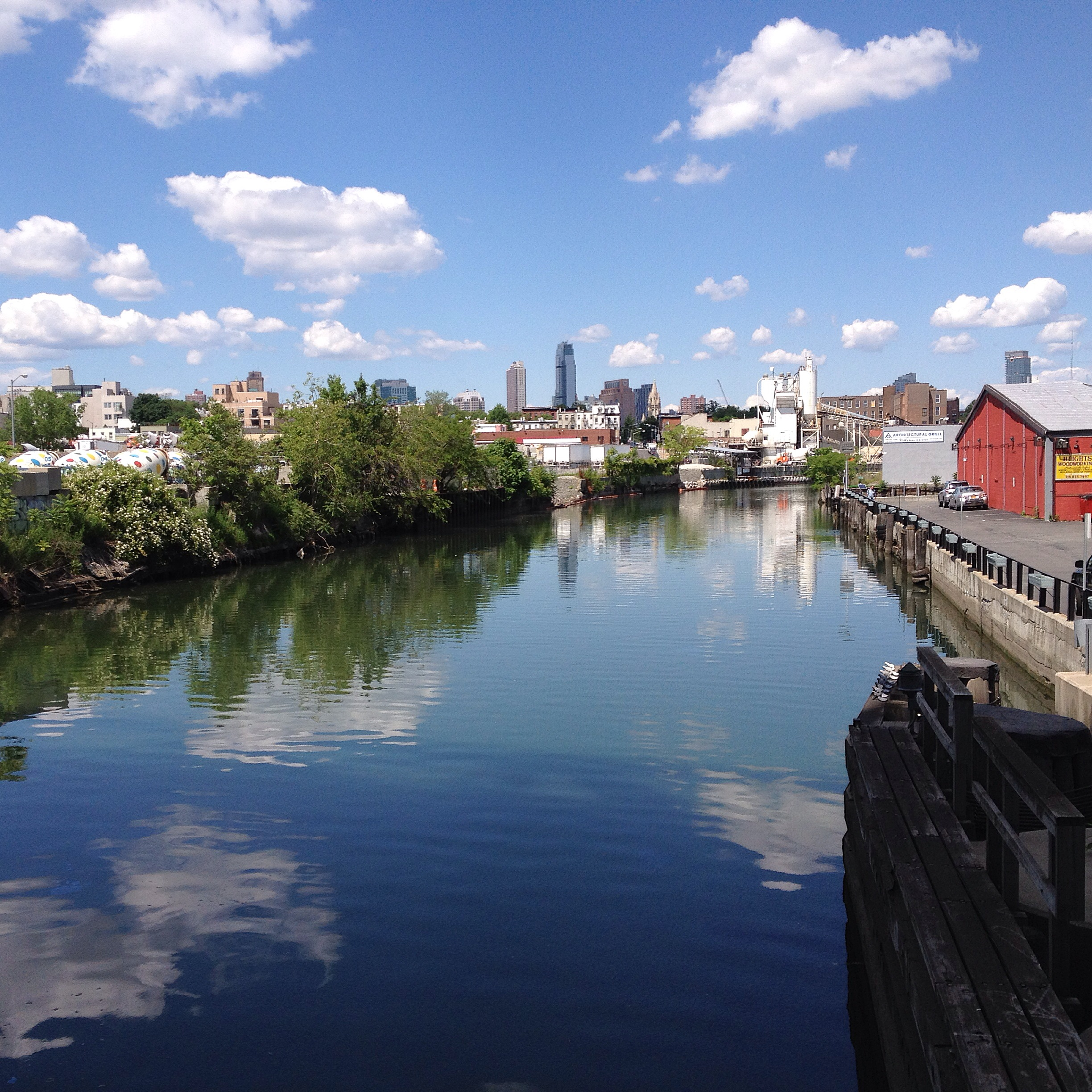 Gowanus Canal, Brooklyn